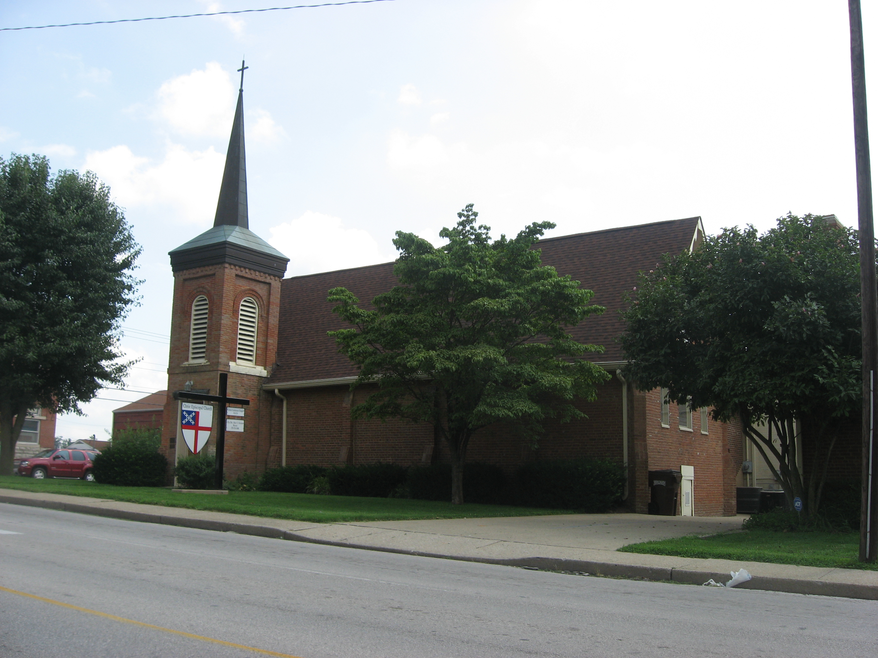 Front and western side of Christ Episcopal Church, located at 206 W. Poplar Street in Elizabethtown, Kentucky, United States. Built in 1850, it is listed on the National Register of Historic Places.